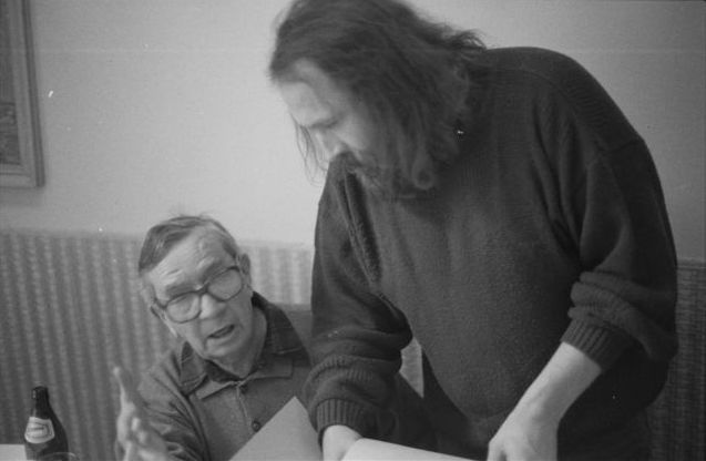 Ivan Diviš and Ivan Wernisch in discussion about the manuscript of "Teorie spolehlivosti" whose 1994 edition Ivan Wernisch edited.